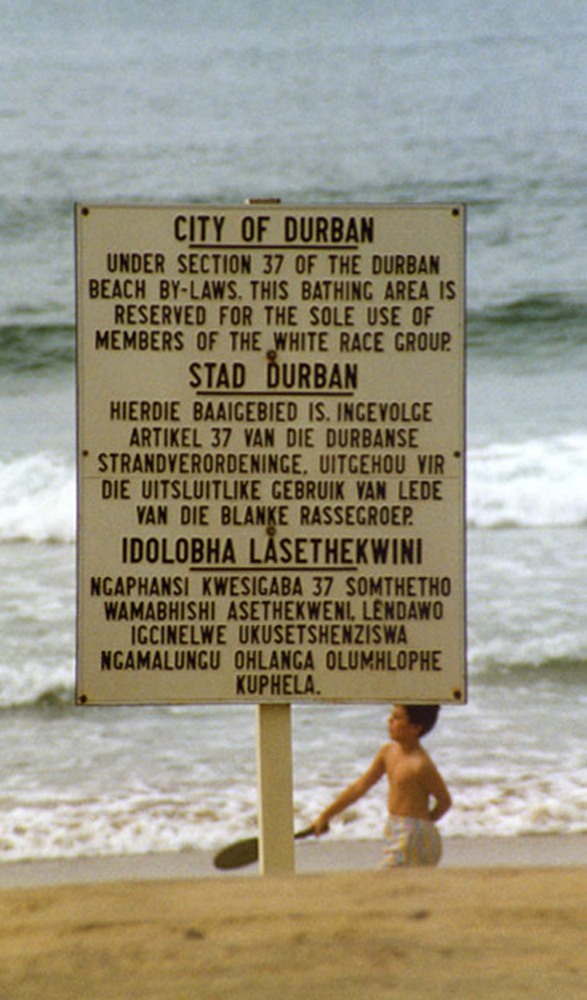 Sign in Durban that states the beach is for whites only under section 37 of the Durban beach by-laws. The languages are English, Afrikaans and Zulu, the language of the black population group in the Durban area.